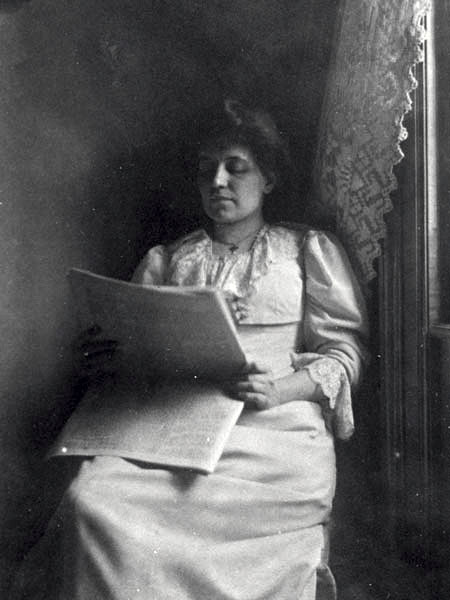 Title: Betty Kurth reading newspaper next to window Creator/Photographer: Unknown Medium: Black and white photograph Date: 1908 Repository:Leo Baeck Institute Parent Collection:Gertrud Kurth Collection AR 10905 ALB 14 Call Number: F 26194 Rights Information: No known copyright restrictions; may be subject to third party rights. For more copyright information, click here. Find more information about this image and others at CJH Archives and Library Catalog.